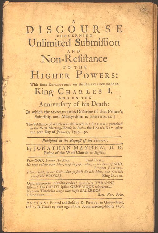 Discourse concerning Unlimited Submission, a sermon by Jonathan Mayhew (1720 - July 9, 1766), minister at Old West Church, Boston, Massachusetts. This image is from the Library of Congress, and hence is not subject to copyright restrictions.